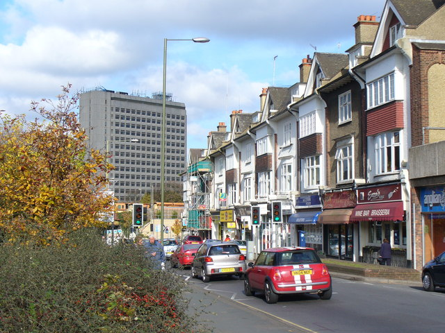 Guildford Road, Woking. This busy town centre street has a row of ground floor shops ("fast food" outlet, bridal wear shop, restaurant, windows, etc) with flats above.